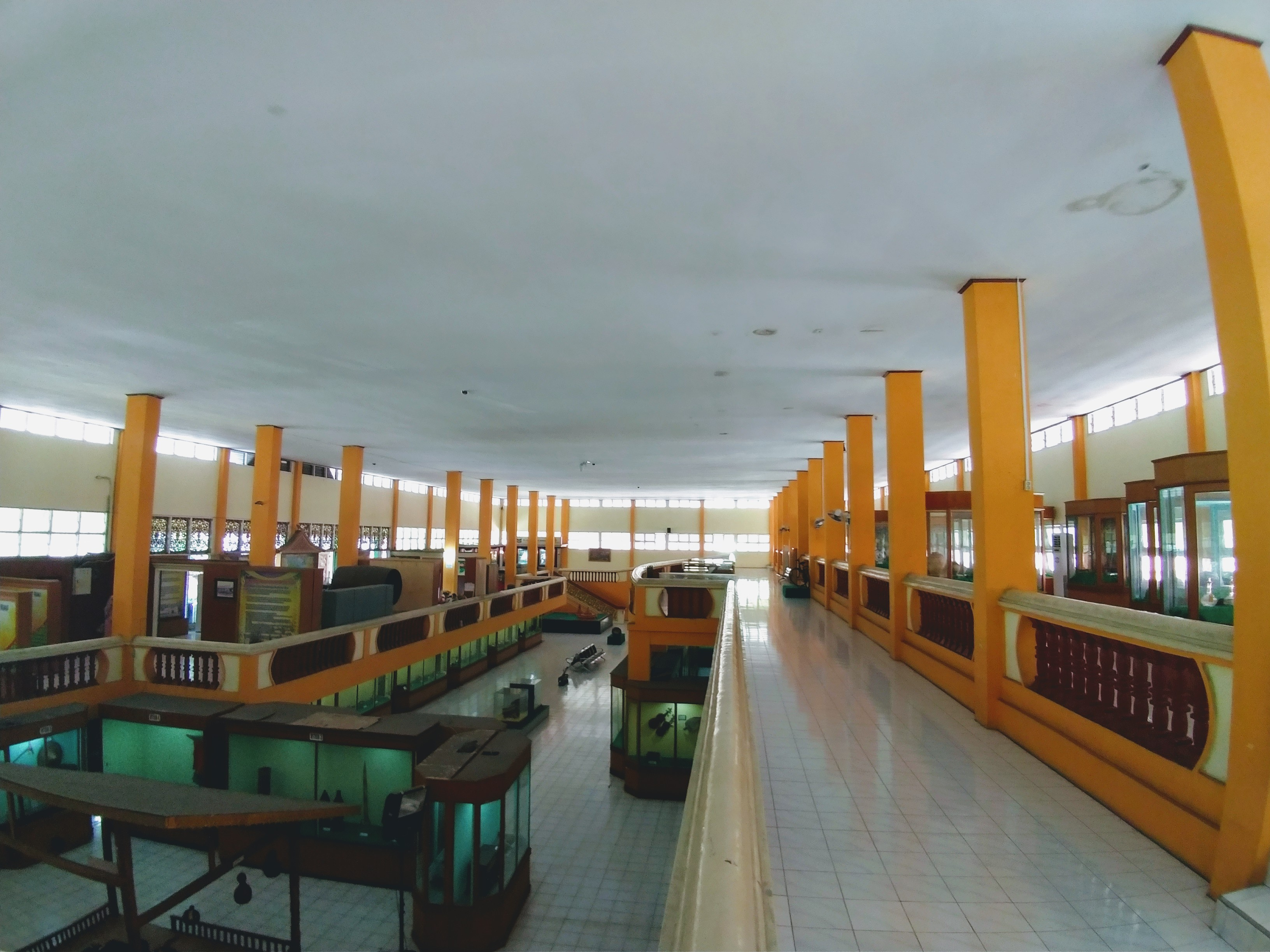 Interior of Sang Nila Utama Museum in Pekanbaru